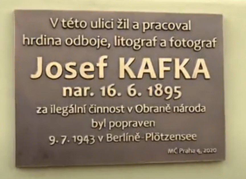 A memorial plaque dedicated to the lithographer and photographer Josef Kafka (* June 16, 1895, Prague - July 9, 1943, Berlin-Plötzensee) was unveiled in the outside wall of the house in Otakarova street 219/9, 140 00 Prague 4 - Nusle. On the plaque is the Czech inscription: In this street lived and worked / the hero of the resistance, lithographer and photographer / Josef Kafka / born 16. 6. 1895 / for illegal activity in the Defense of the Nation / he was executed / 9. 7. 1943 in Berlin-Plötzensee //.